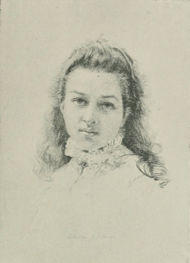 one of the Women of the Century